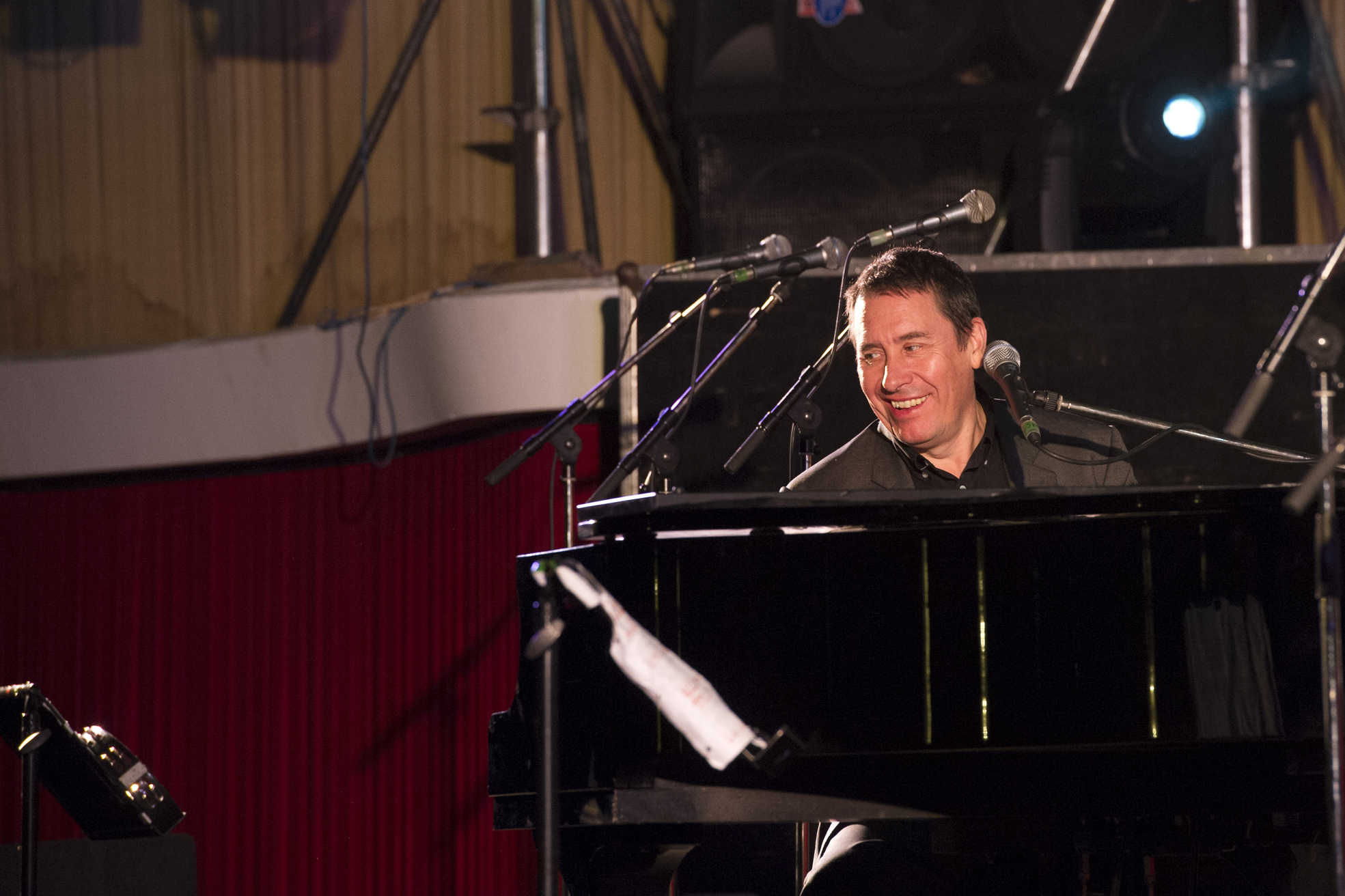 Jools Holland performing at the second Gibraltar International Jazz Festival held at the Queen's Cinema in October 2013.